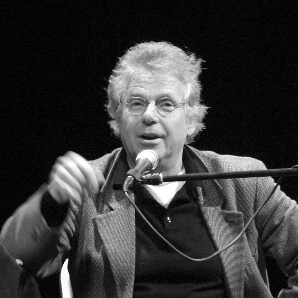 Daniel Cohn-Bendit, European politician, at lit.cologne, Cologne literature festival 2006, Germany.